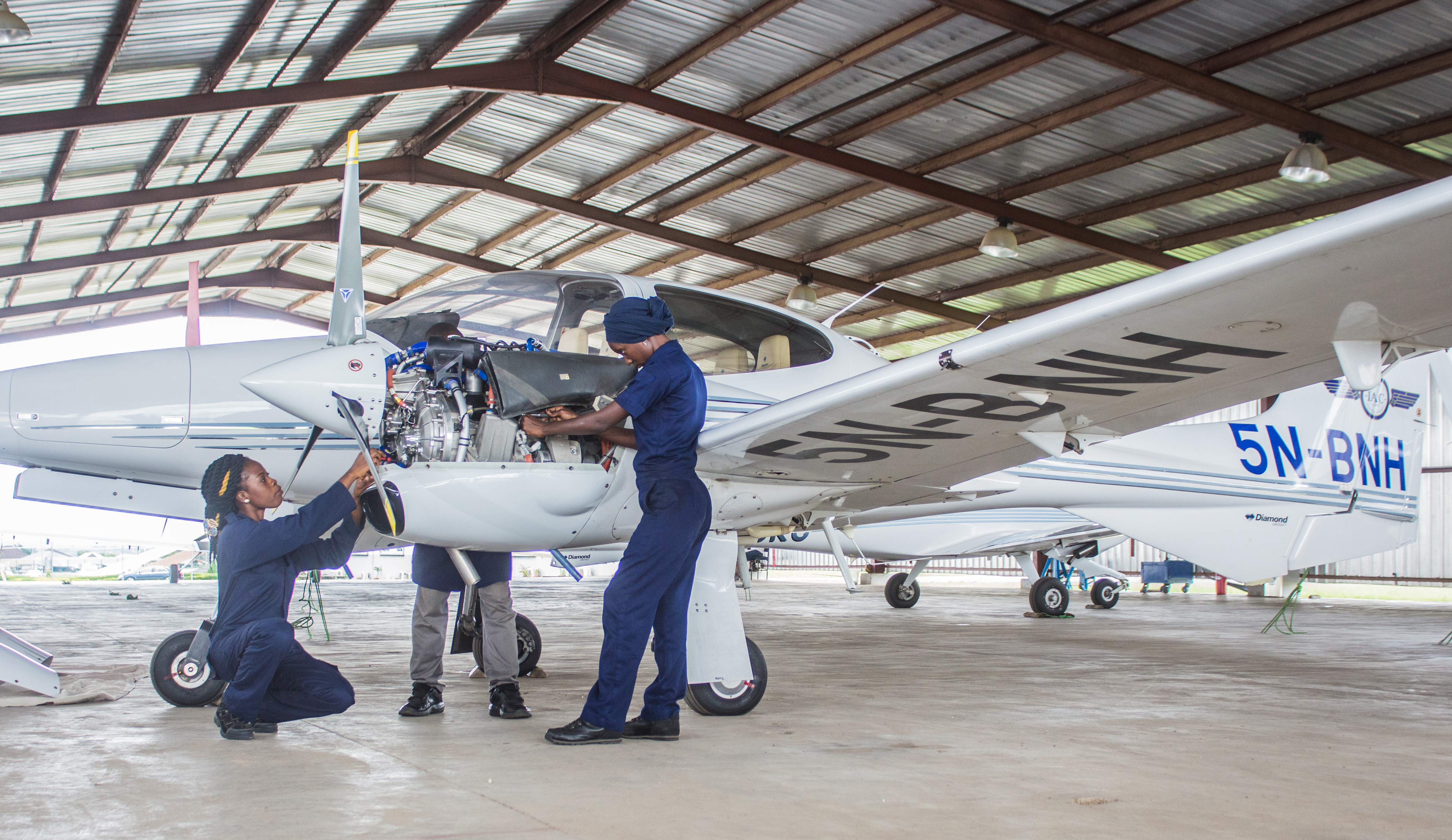 This picture was taken at the International Aviation College, Kwara State, Nigeria. It shows female aircraft engineers working on an aircraft. These women are in a male dominated profession but scaled through the tides and are successful in the field. There few female working in the engineering section of aviation in Africa. This is an image of "African people at work" from Nigeria